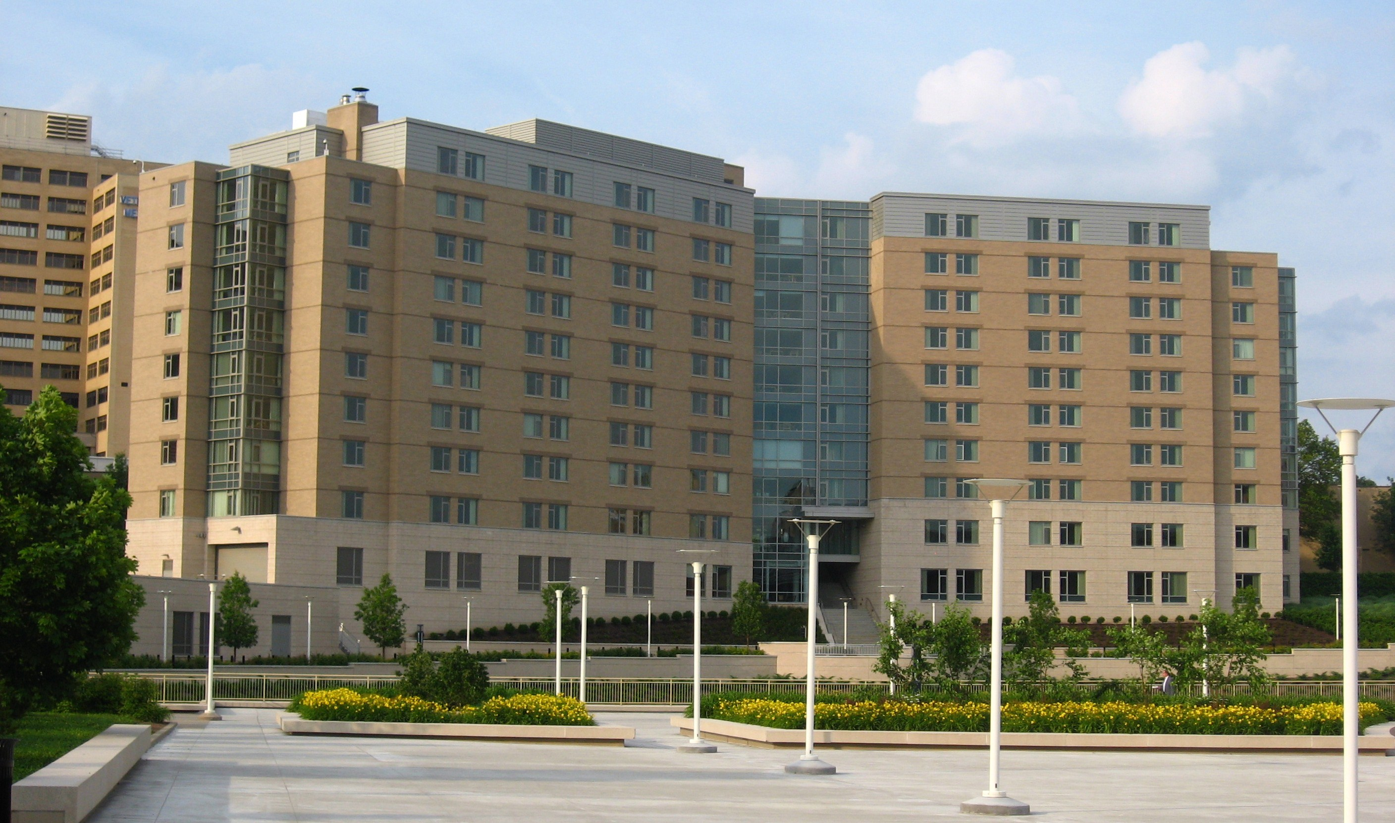 Panther Hall at University of Pittsburgh 40°26′42.6″N 79°57′41.9″W / 40.445167°N 79.961639°W